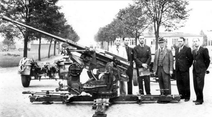 Reception of a 3.7 cm Flak 39 AA gun at the factory in Romania. Know in Romania as the 37 mm Rheinmetall Model 1939 AA gun.